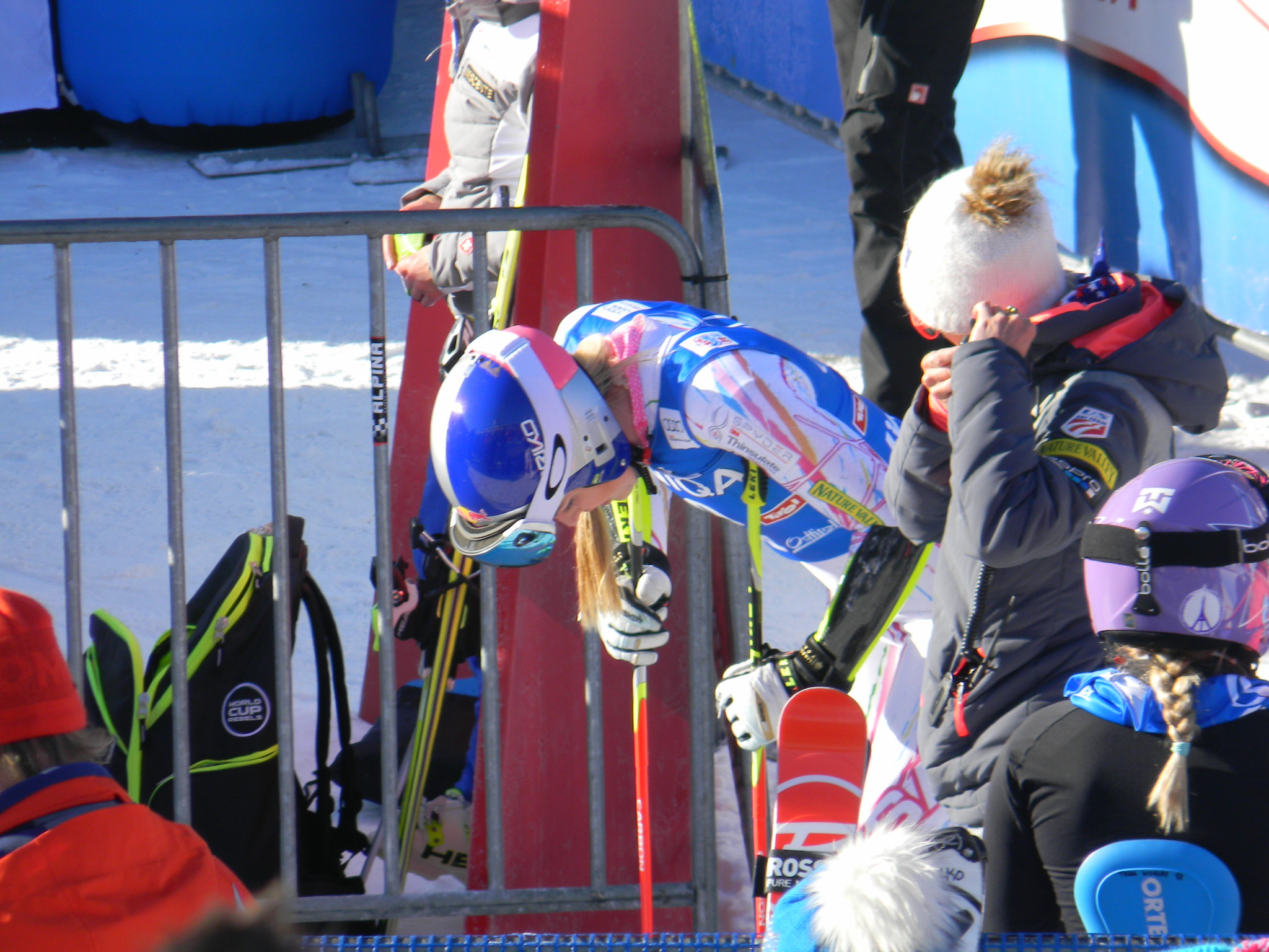 Lindsey Vonn of United States after failing to complete the Audi FIS Alpine Ski World Cup Women's Giant Slalom on December 28, 2015 in Lienz, Austria